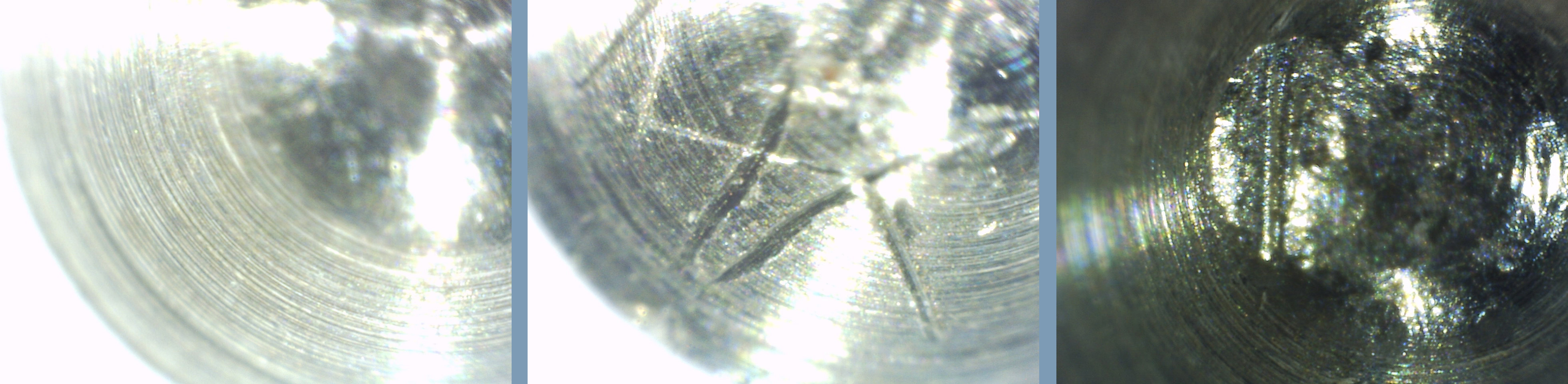 Comparison of 3 lock pins, the first one is new, the second has been picked by a rake, and the third one has been picked by a lock pick-gun